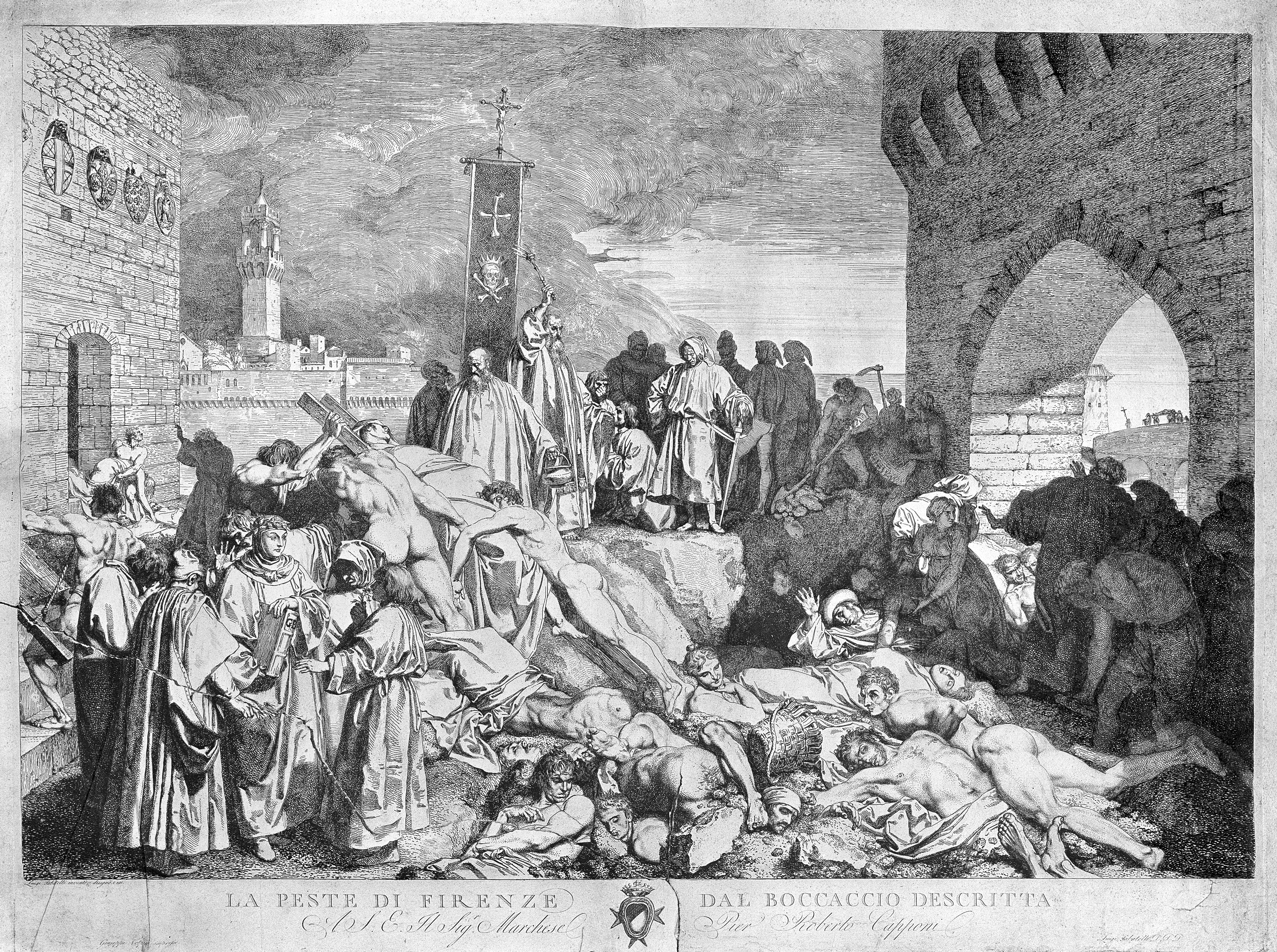 The plague of Florence in 1348, as described in Boccaccio's Decameron. Etching by L. Sabatelli after himself. Iconographic Collections Keywords: Black Death; Plague; Public Health; Giovanni Boccaccio; Luigi Sabatelli; Pier Roberto Capponi